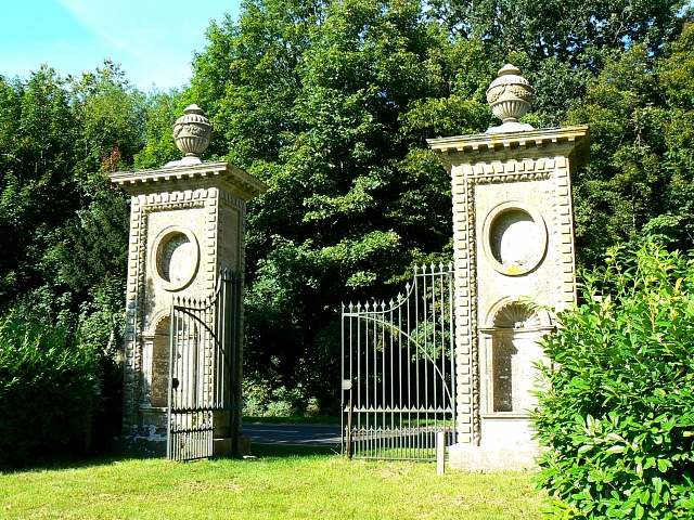 Gateway, Coleshill estate, Oxfordshire, England. Designed by Inigo Jones.[1] The main house was designed by Sir Roger Pratt, and burned down in 1955.